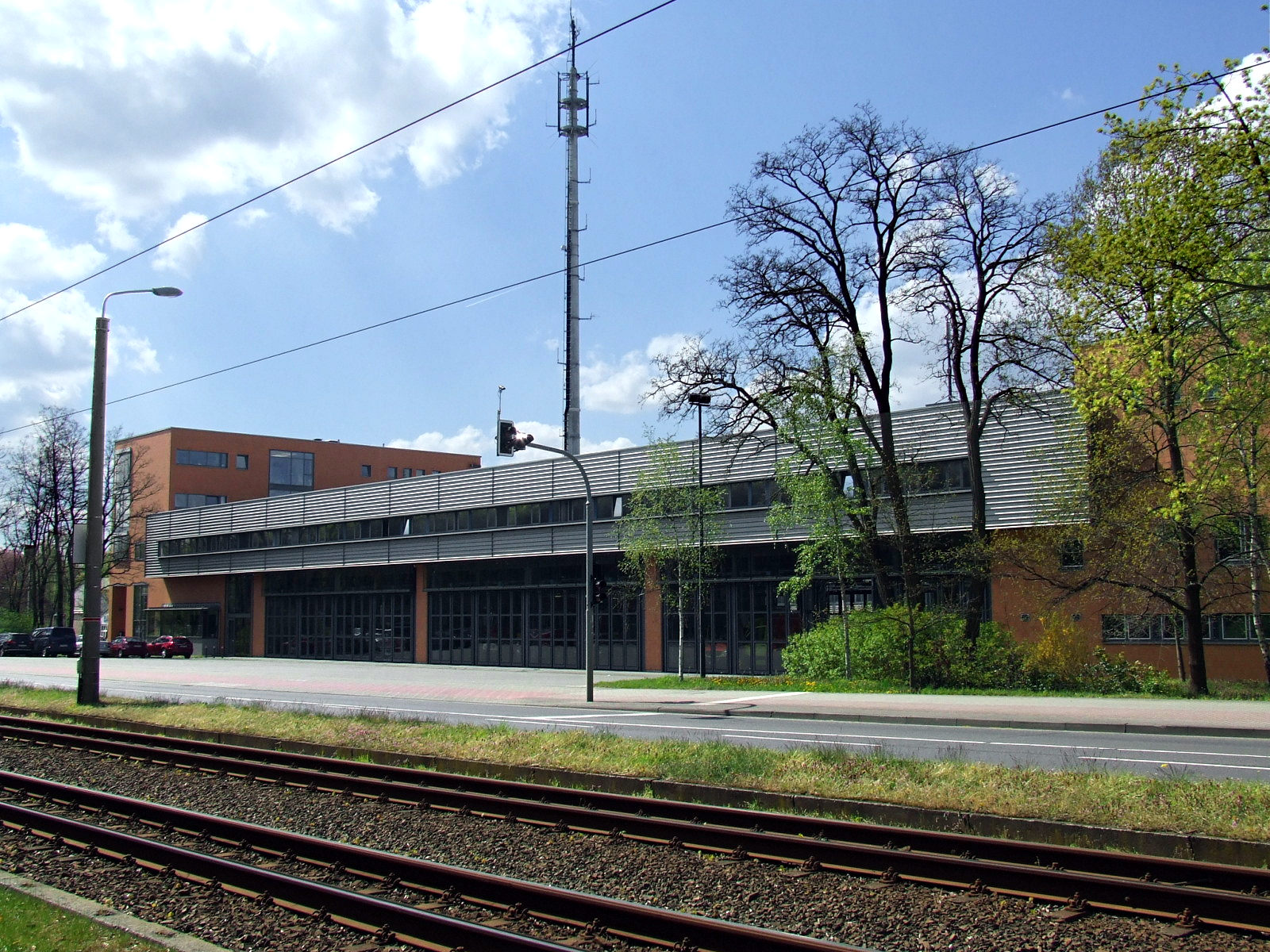 Main fire station of the professional fire brigade Cottbus.